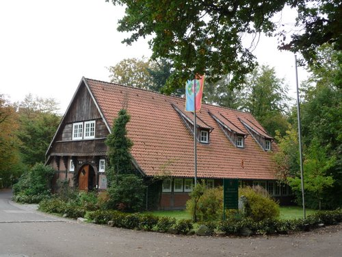 Haus Welpe bei Vechta